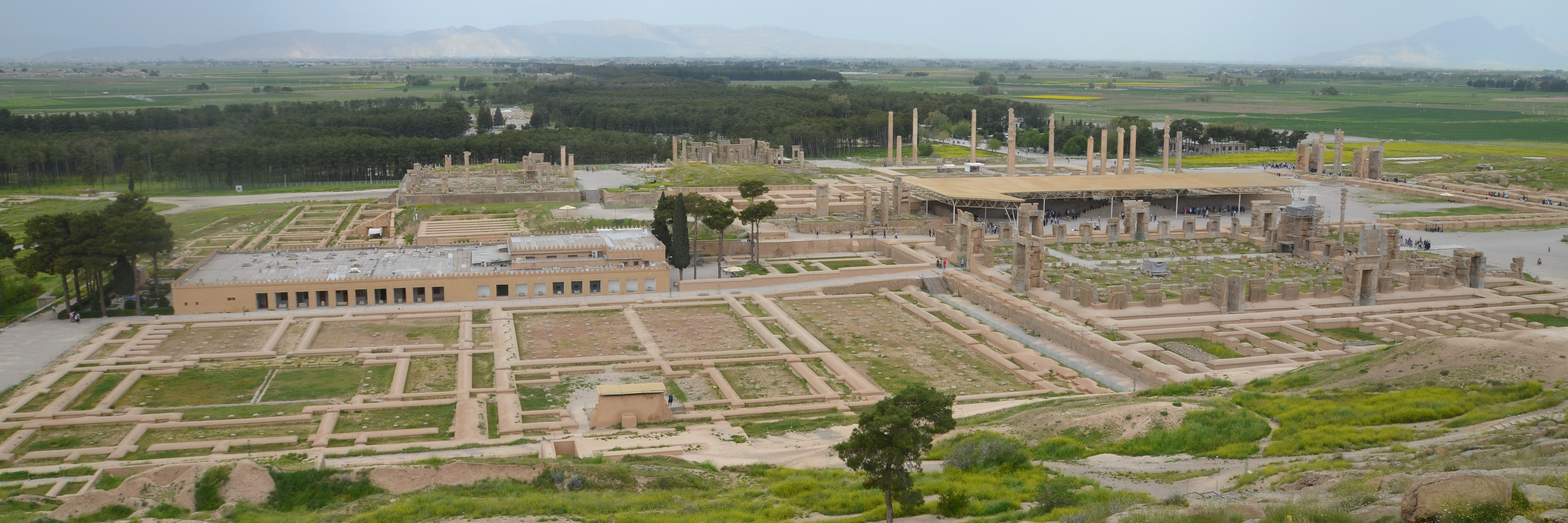 A general view of Persepolis, the ceremonial capital of the Achaemenid Persian Empire, in Persia (Persis/Fars), southwestern Iran.